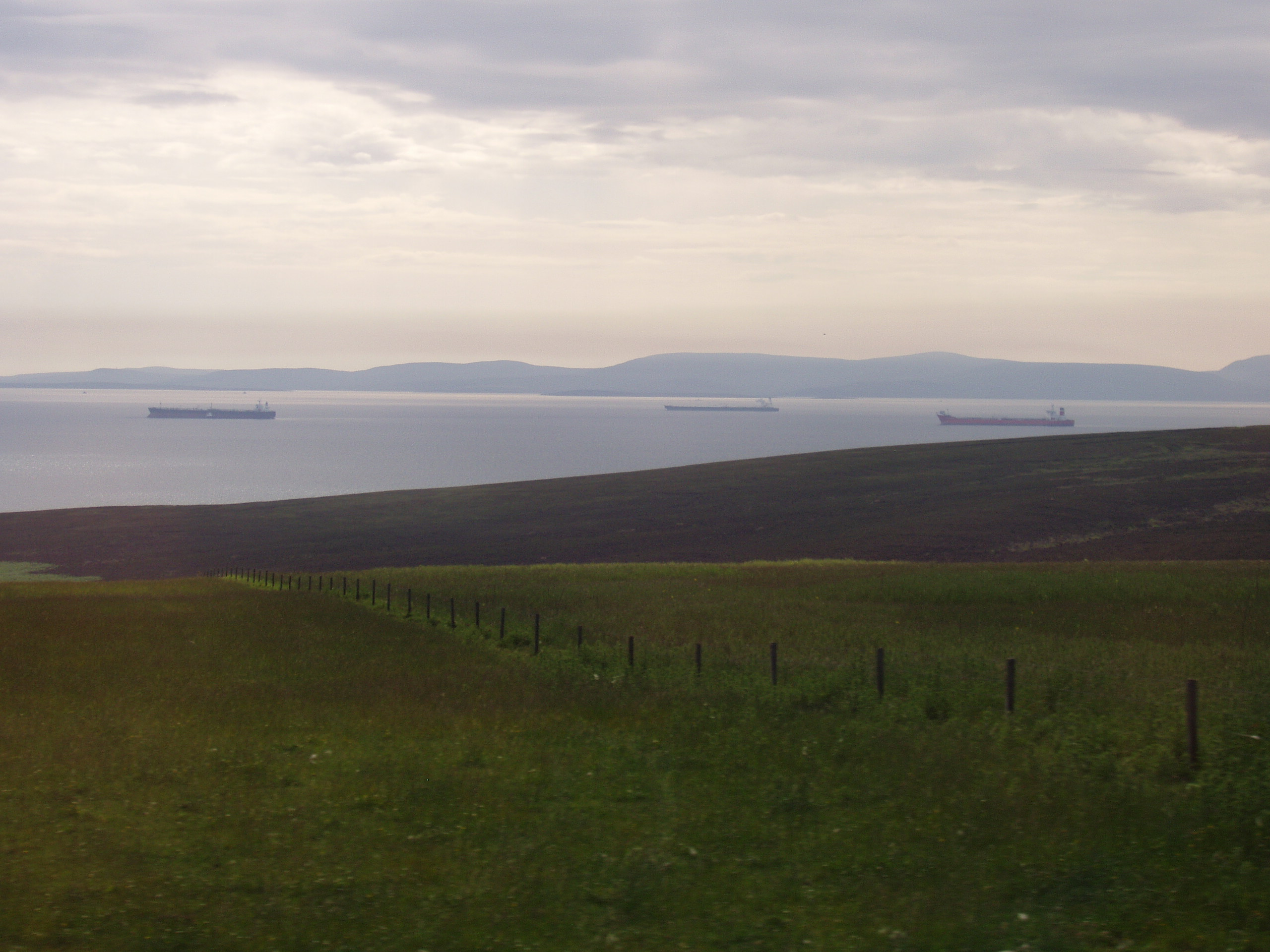 These are three of several petroleum tankers that were waiting at anchor in Scapa Flow. Protected by the scattered layout of the Orkney Islands, Scapa Flow provides a deep, calm anchorage at the fringe of what can often be a very turbulent North Sea. As such, the North Sea oil industry has infrastructure set up in Scapa Flow to allow supertankers to sail through stopping only to conduct offshore petroleum loading via mooring buoys, ship-to-ship transfers, or at the pipeline terminal/refinery. For this picture, the camera is located between Kirkwall and St. Mary on Mainland, Orkney Islands